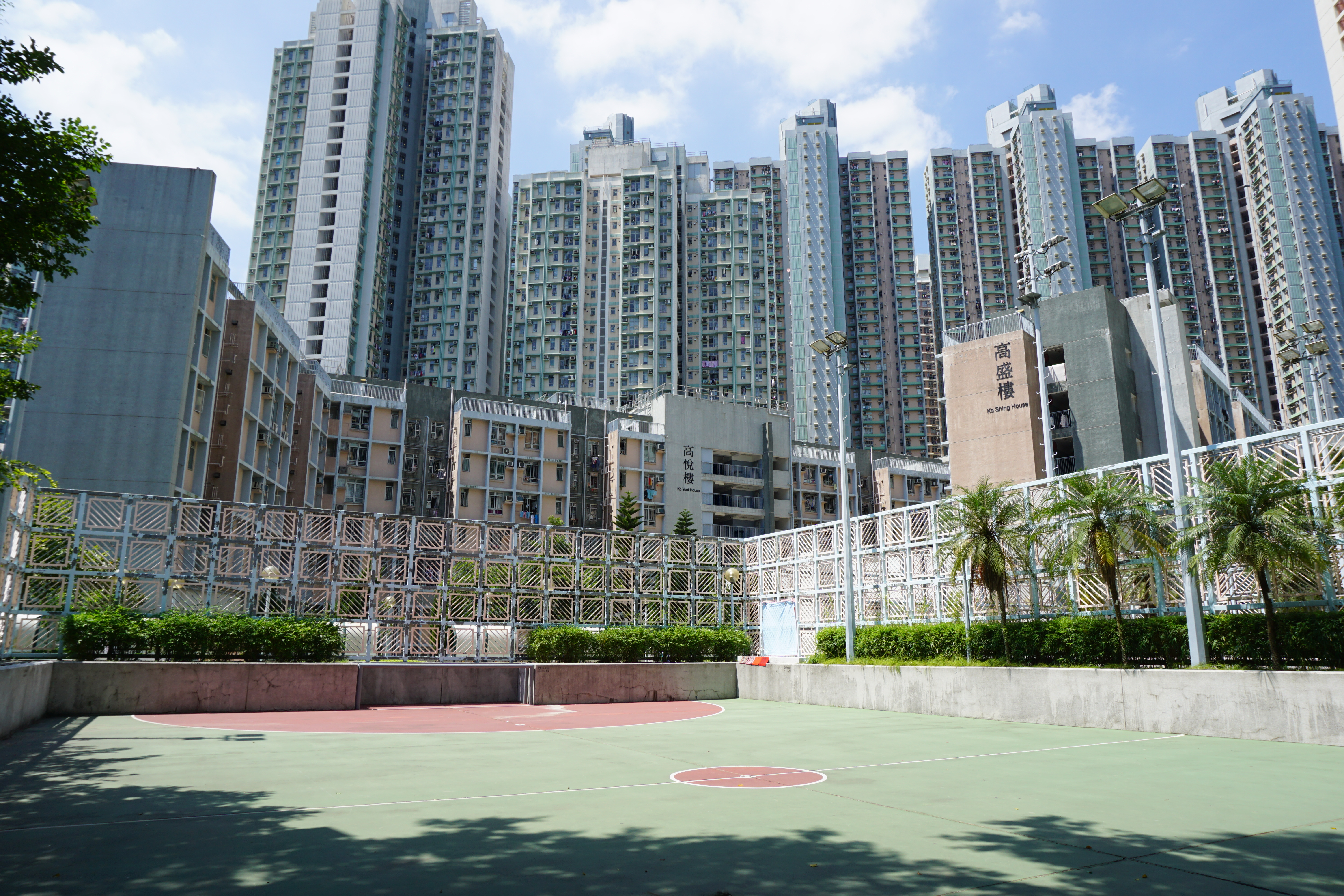 Ko Yee Estate in Yau Tong, Hong Kong.